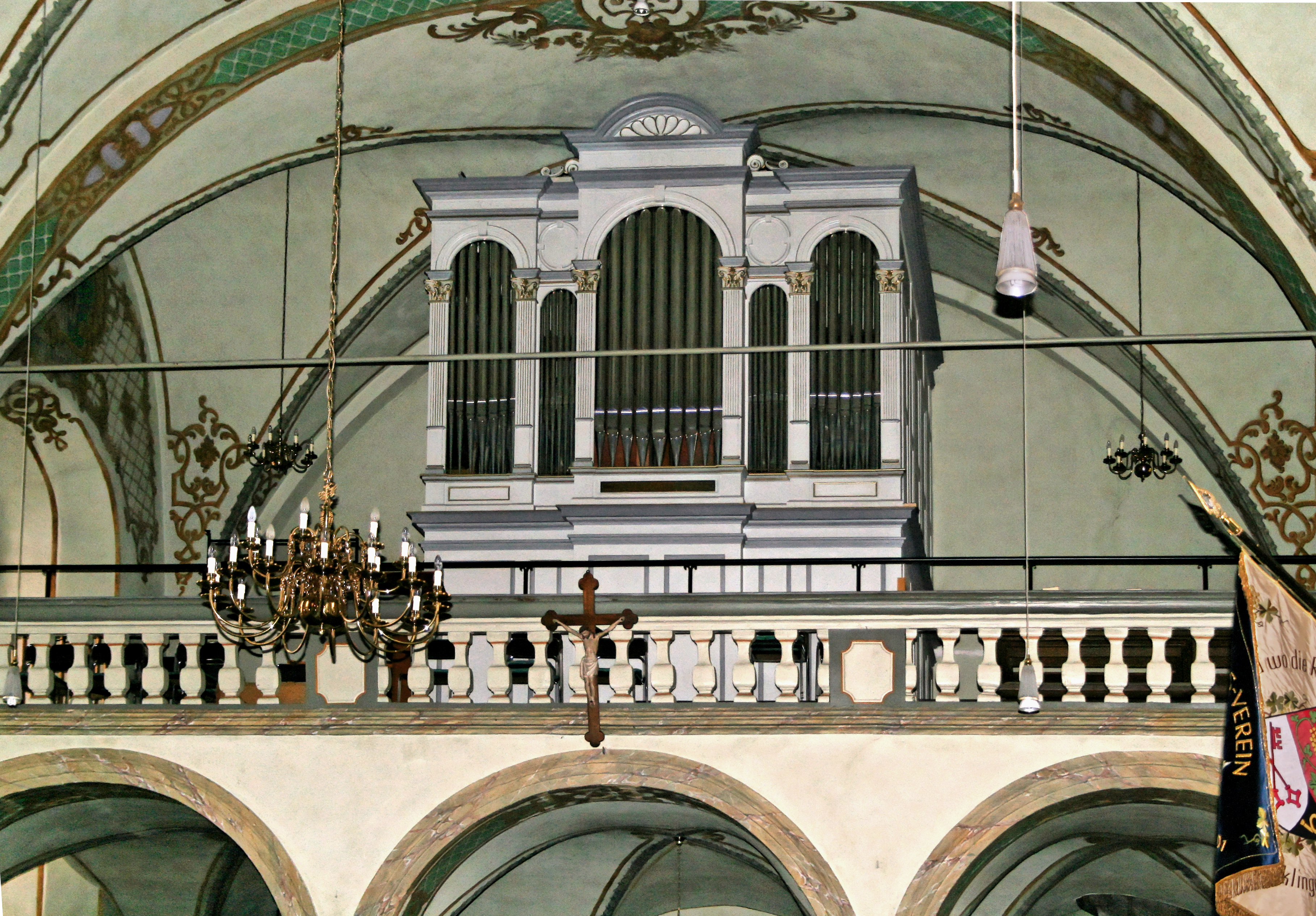 Organ in the church St. Peter in Lieser